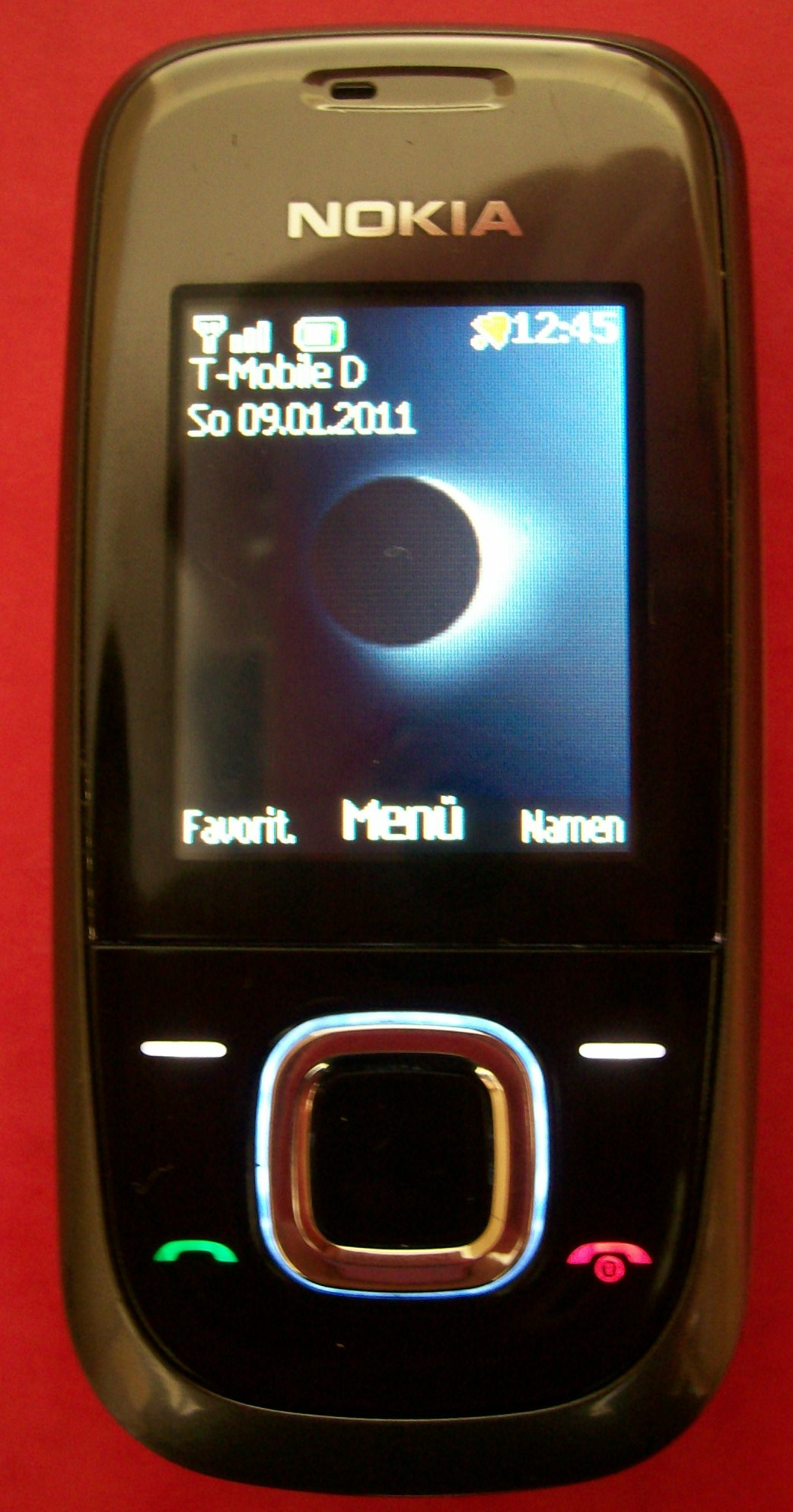 the nokia 2680 slide